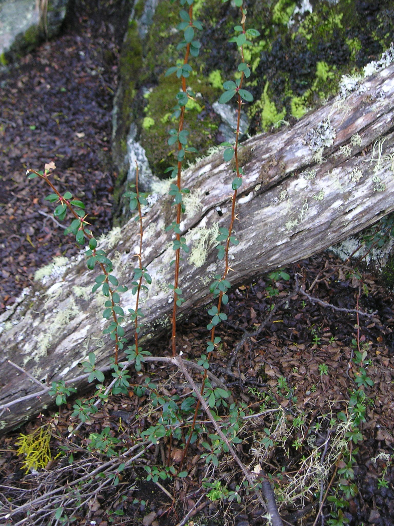 Calafate (Berberis buxifolia =Berberis microphylla) plant from the Tierra del Fuego National Park , west of Ushuaia, Argentina.